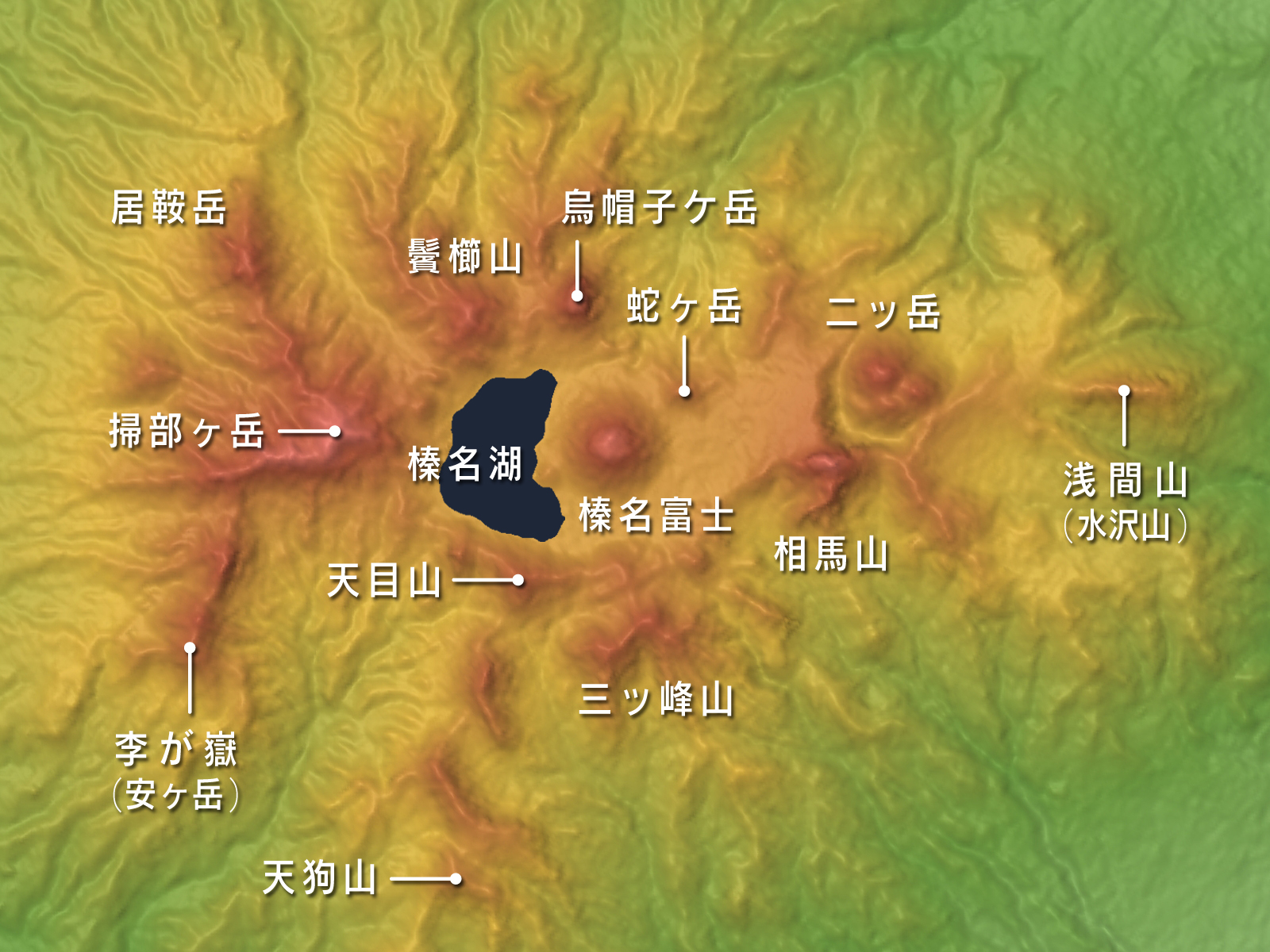 Mount Haruna in Gunma Prefecture, Honshu, Japan.